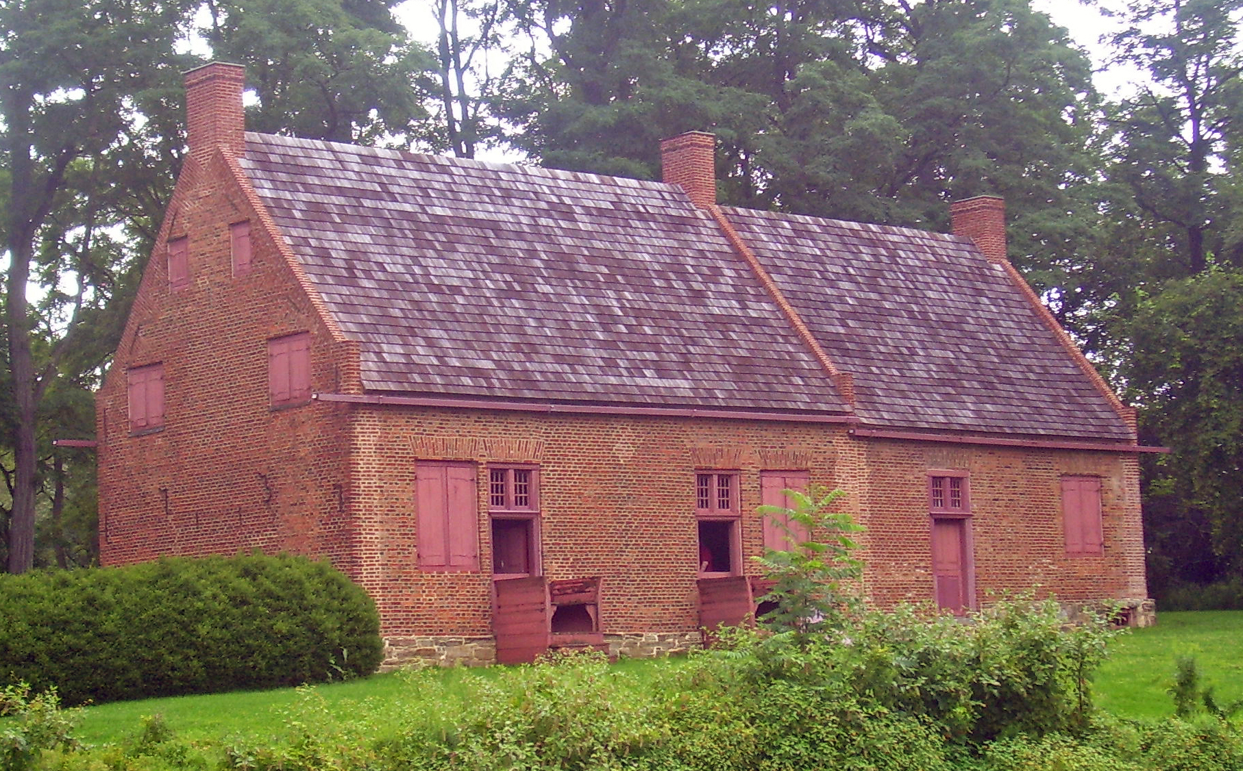 Luycas Van Alen House, a surviving Dutch colonial farmhouse on NY 9H outside Kinderhook, NY, USA